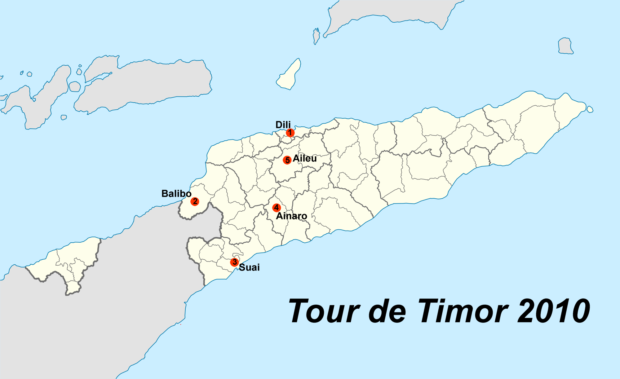 Stops of the Tour de Timor 2010